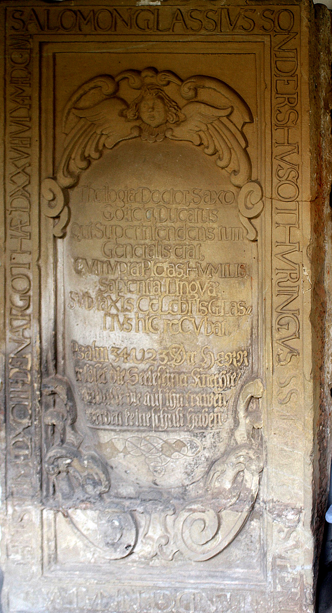 Gotha, the Augustinerkirche, funerary plaque in the cloister